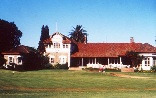 Club House of Golf Club San Andrés, San Andrés, Buenos Aires, Argentina.